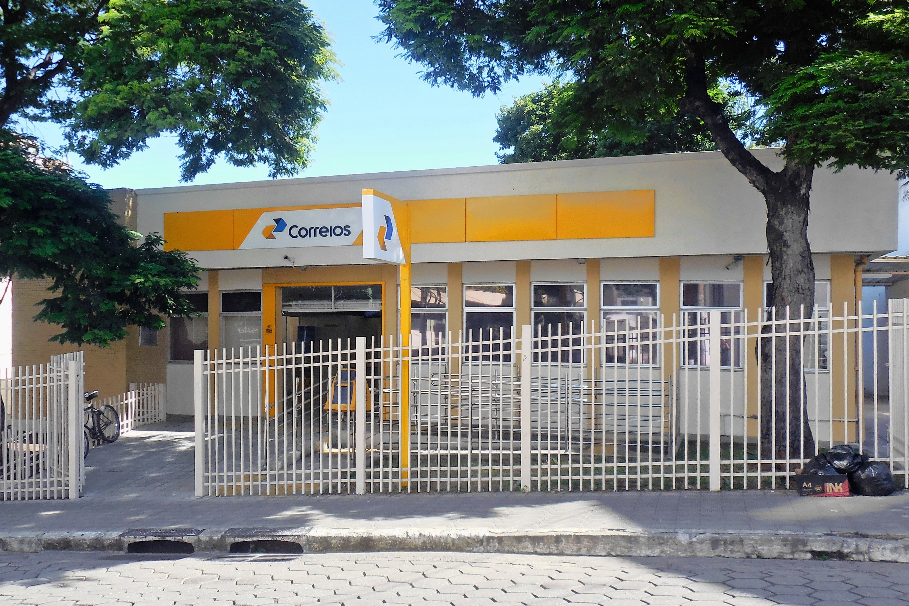 Post office of the Empresa Brasileira de Correios e Telégrafos (ECT) in the downtown of Coronel Fabriciano, Minas Gerais, Brazil.